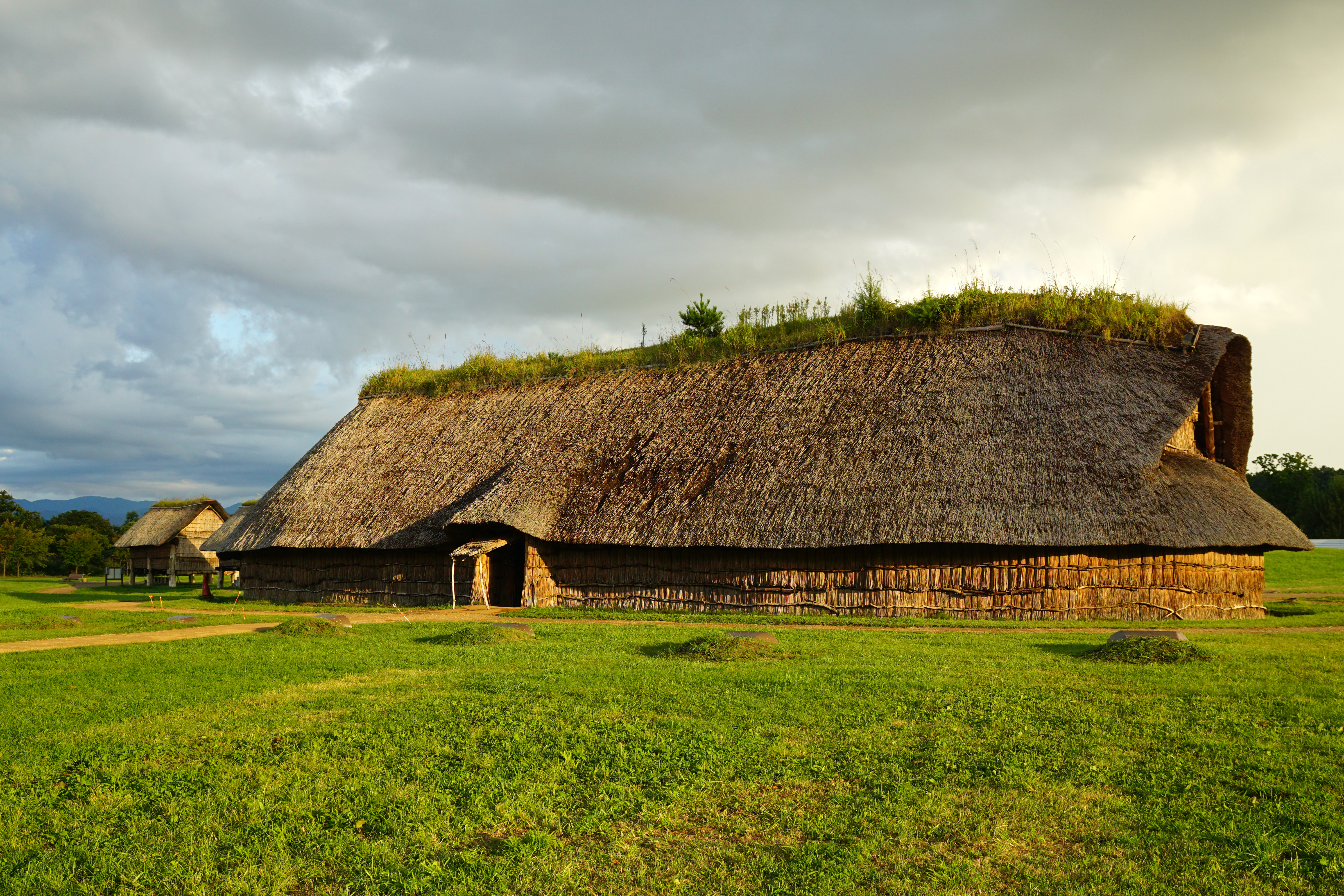 Sannai-Maruyama_site in Aomori, Aomori prefecture, Japan.